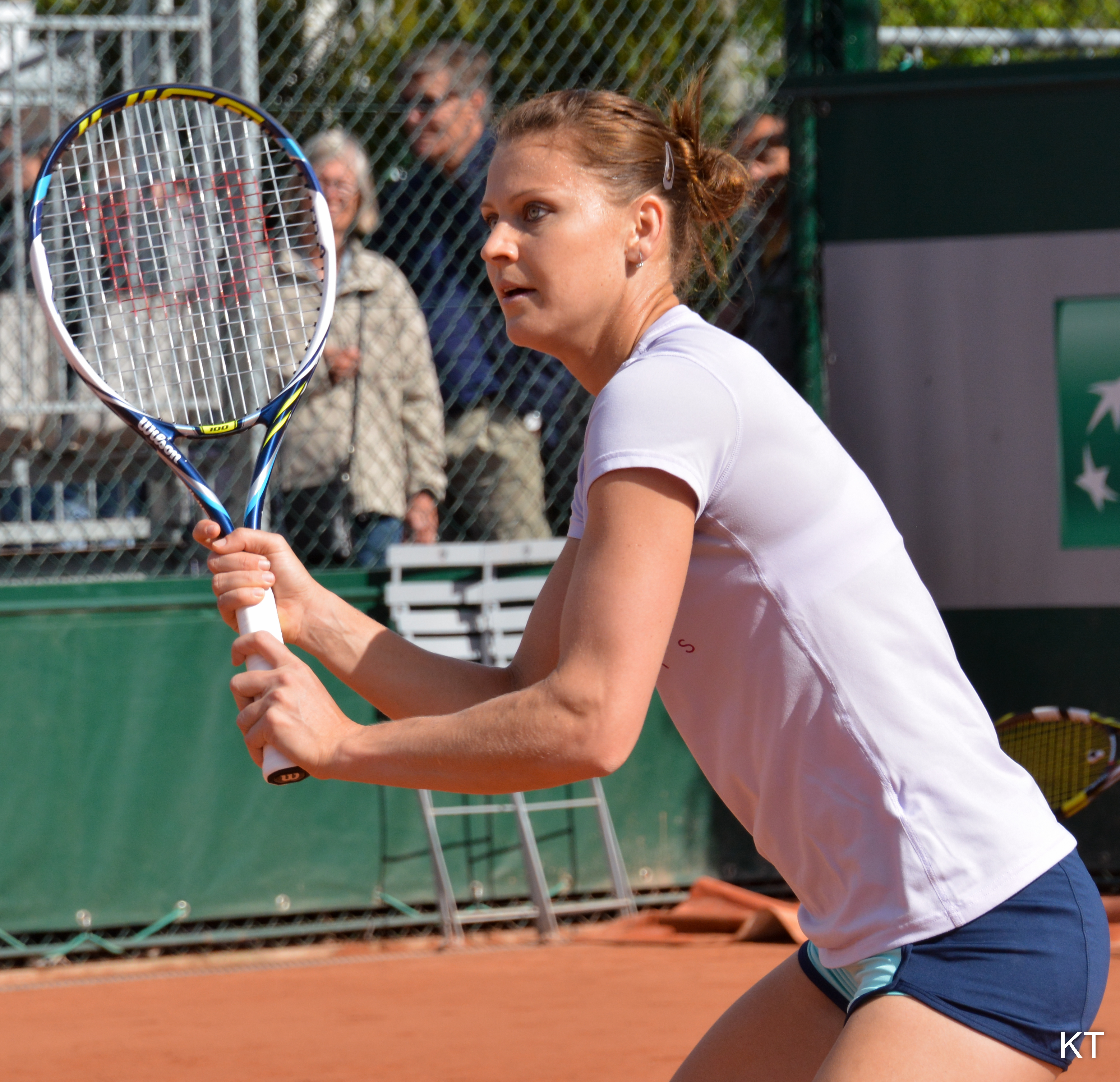 On the practice court. Day 5 of Roland Garros 2015. 2015 Roland Garros.